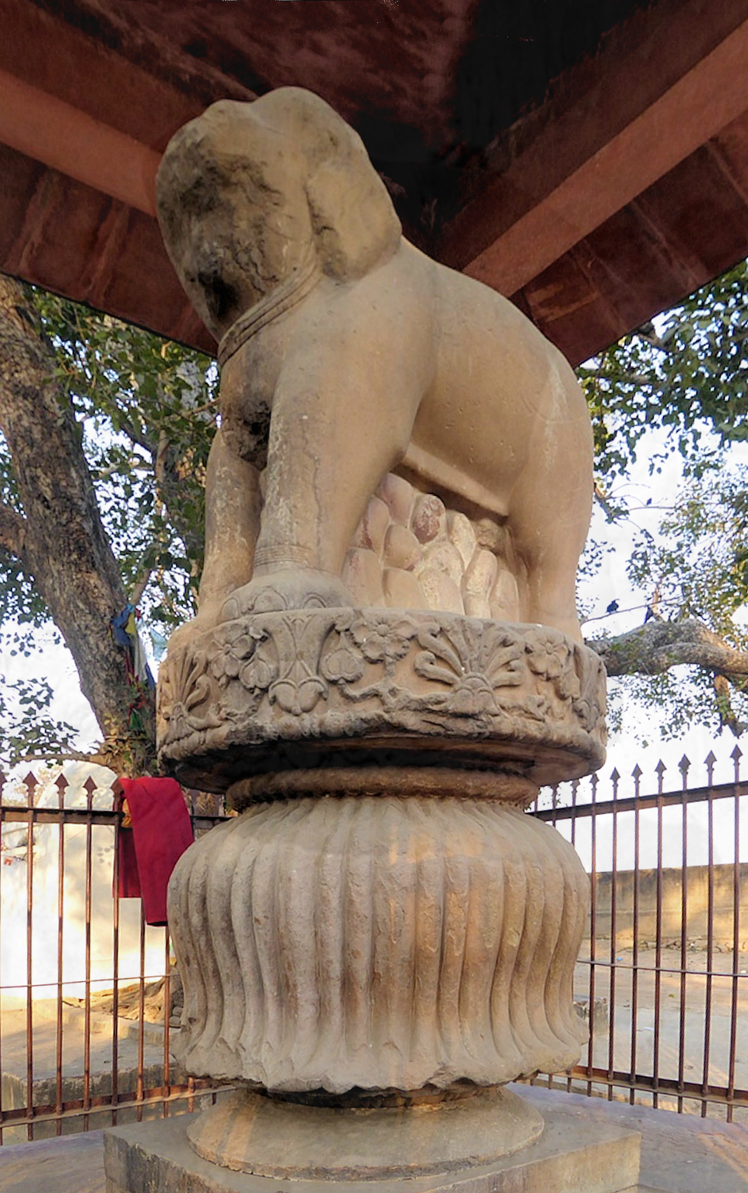 Elephant capital at Sankasya. Simulation with face and trump. Image at the time of discovery. Abacus detail.